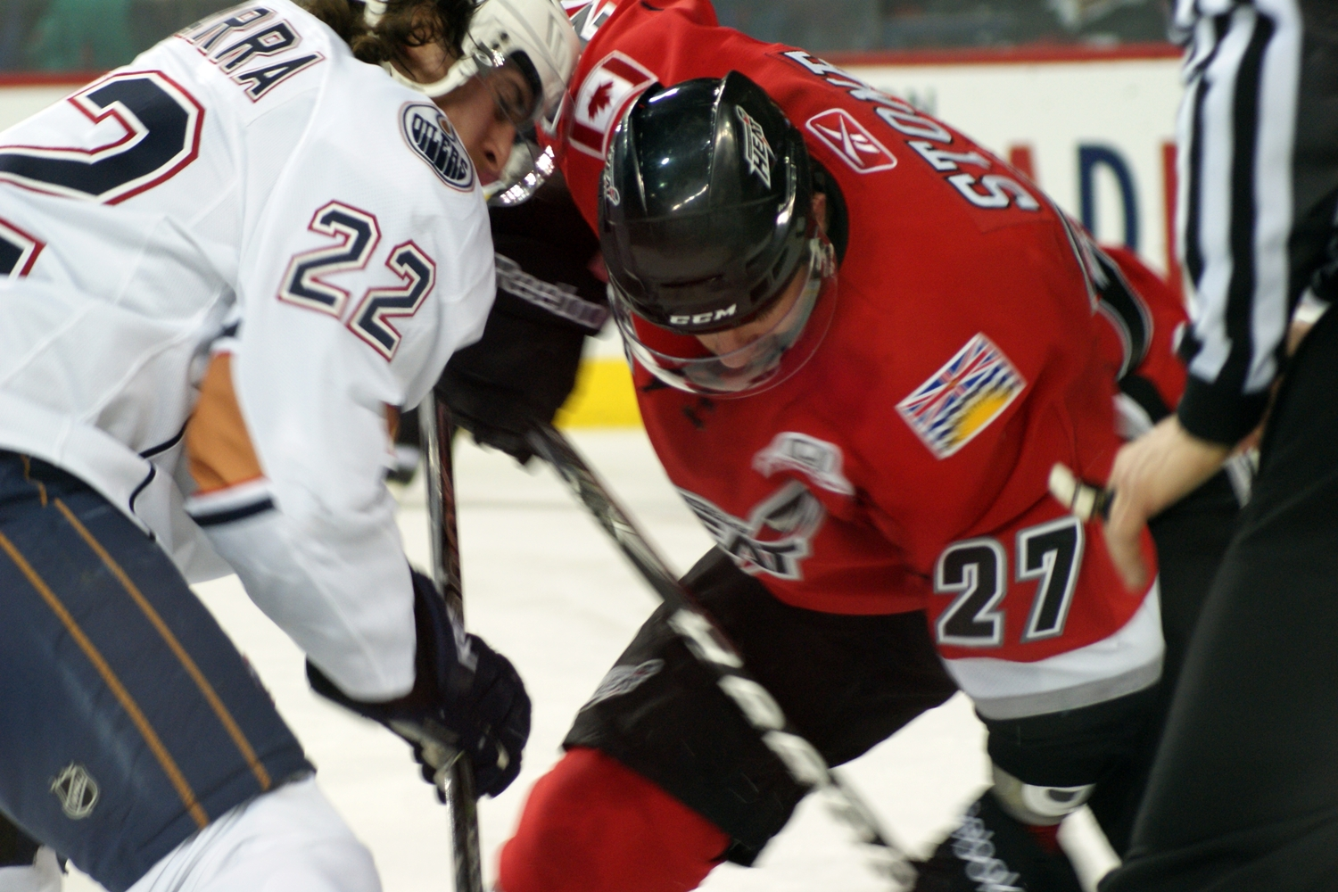 Ryan O'Marra (#22 Oklahoma City Barons) in a faceoff against Ryan Stone (#27 Abbotsford Heat) in a regular season American Hockey League (AHL) game. Photo taken February 18, 2011.